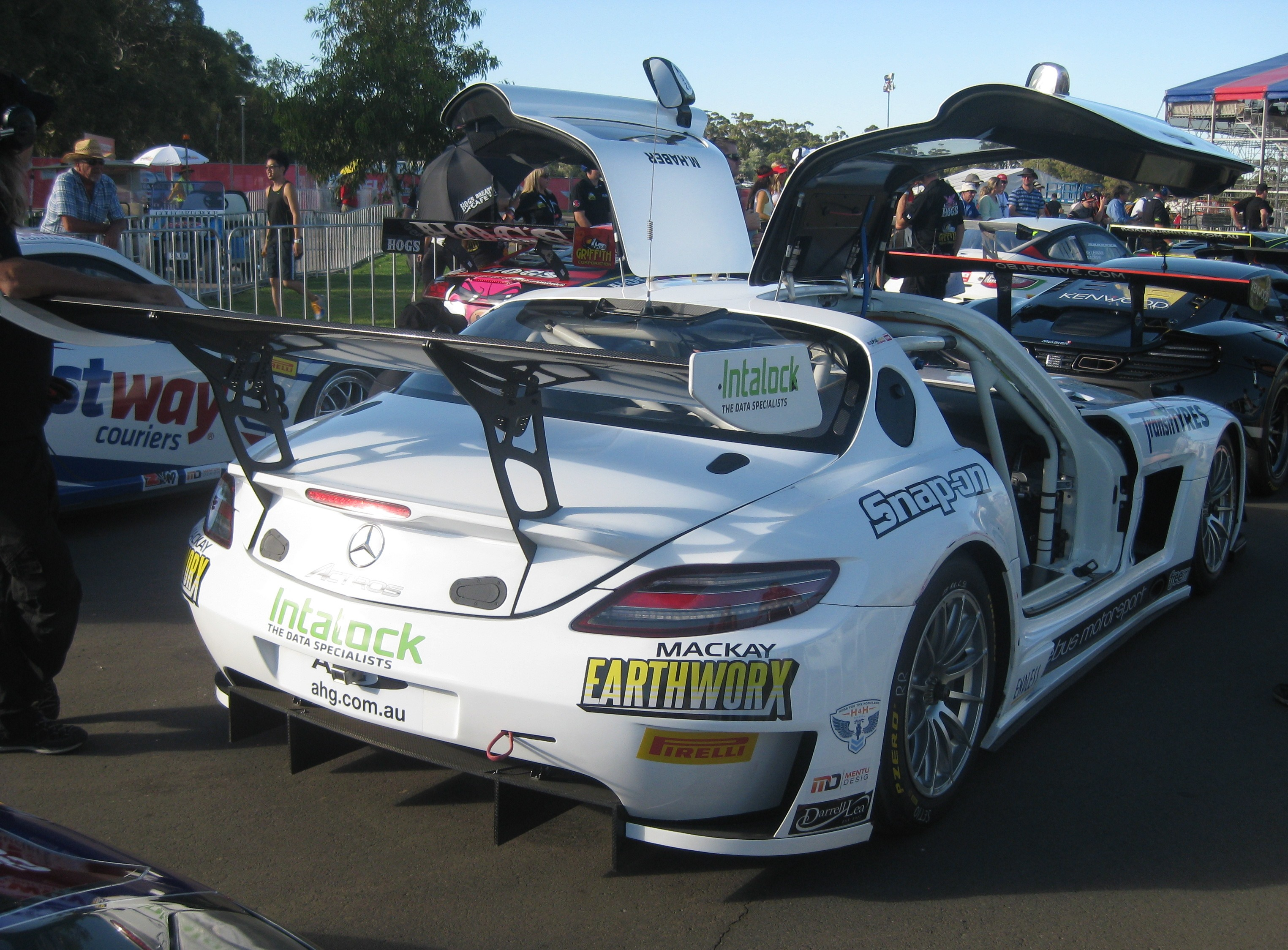 The Mercedes Benz AMG SLS of Morgan Haber at at the opening round of the 2015 Australian GT Championship